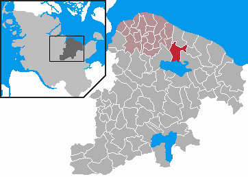 This map shows the area of the Gemeinde (municipality) Köhn in the Kreis (district) Plön, Schleswig-Holstein, Germany.